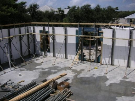 The interior AFTER the concrete has been poured into the walls, with the bracing in place.